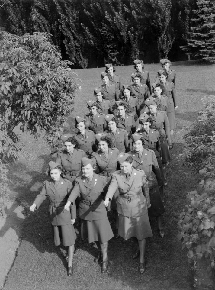 Members of the women's section of the "Canadian Auxiliary Service Corps" march in step. They wear the uniform.